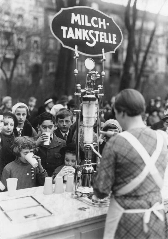 The first milk filling station in Berlin! Our picture shows the milk-station surrounded by small milk drinkers.